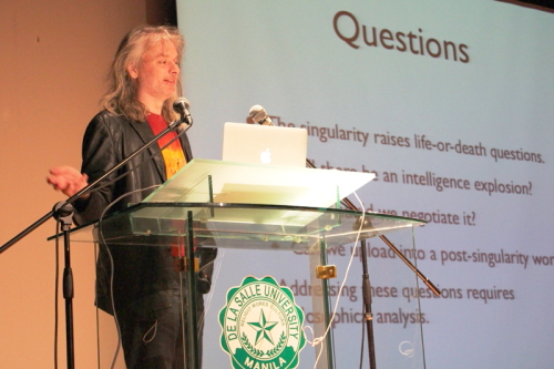 David Chalmers delivering his The Singularity: A Philosophical Analysis paper for the Alan Turing Year celebration of De La Salle University-Manila's Department of Philosophy